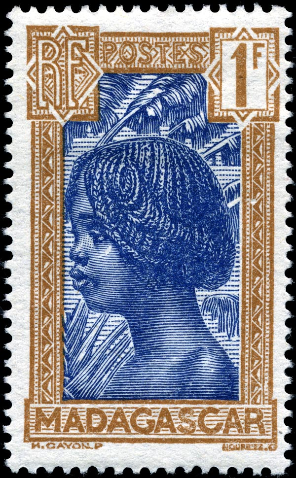 Madagascar 1fr stamp of 1930